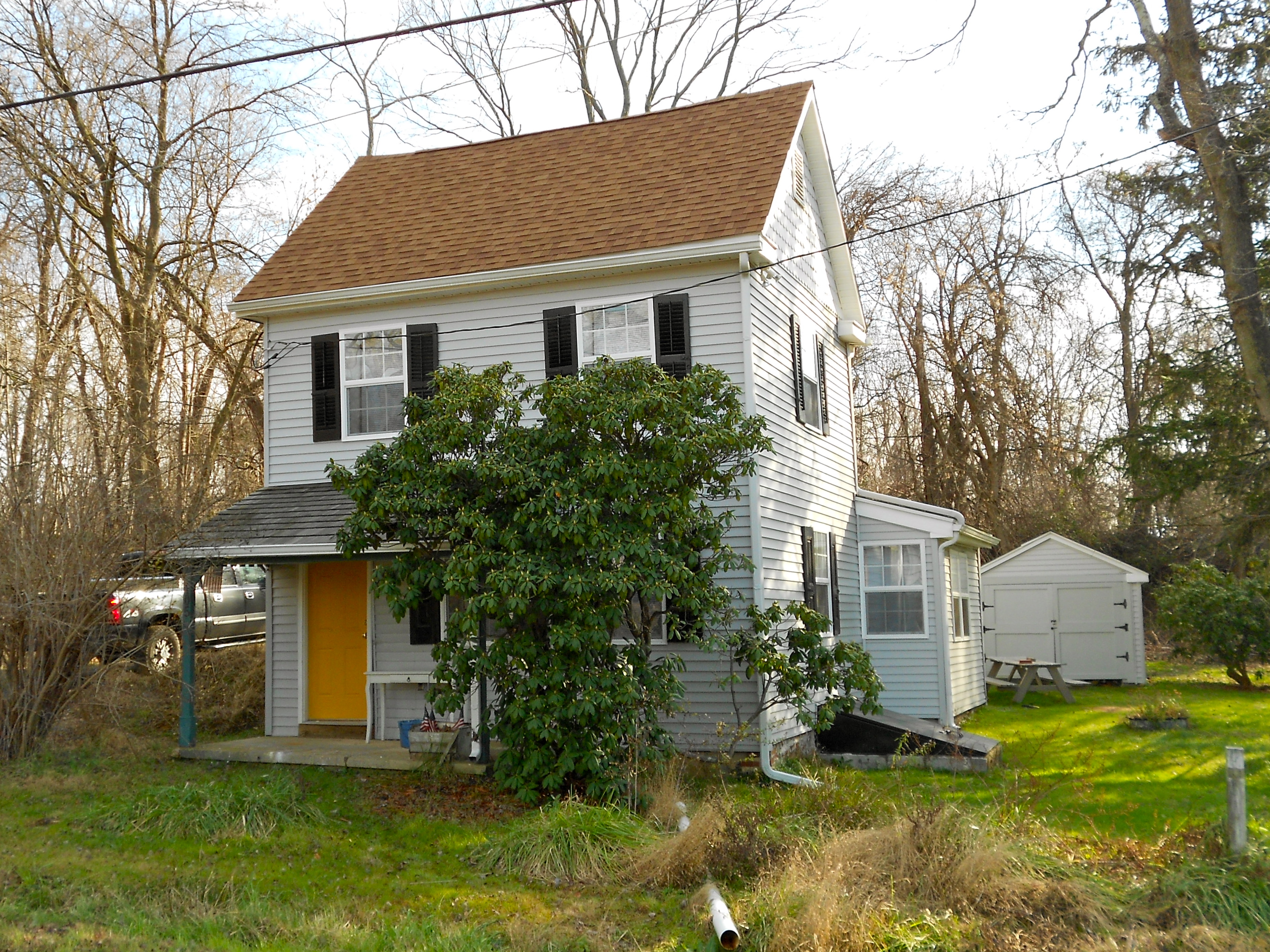 "Vernacular Frame House" on the NRHP since April 8, 1982, on Delaware St., St. Georges, New Castle County, Delaware. Odd name was likely given as this house is meant to represent a working class residence. It was built by a former slave c. 1864 and his grand-daughter lived in the house until at least 1982. Interesting window on the north side not seen here ("Gothic" rectangle plus triangle window)